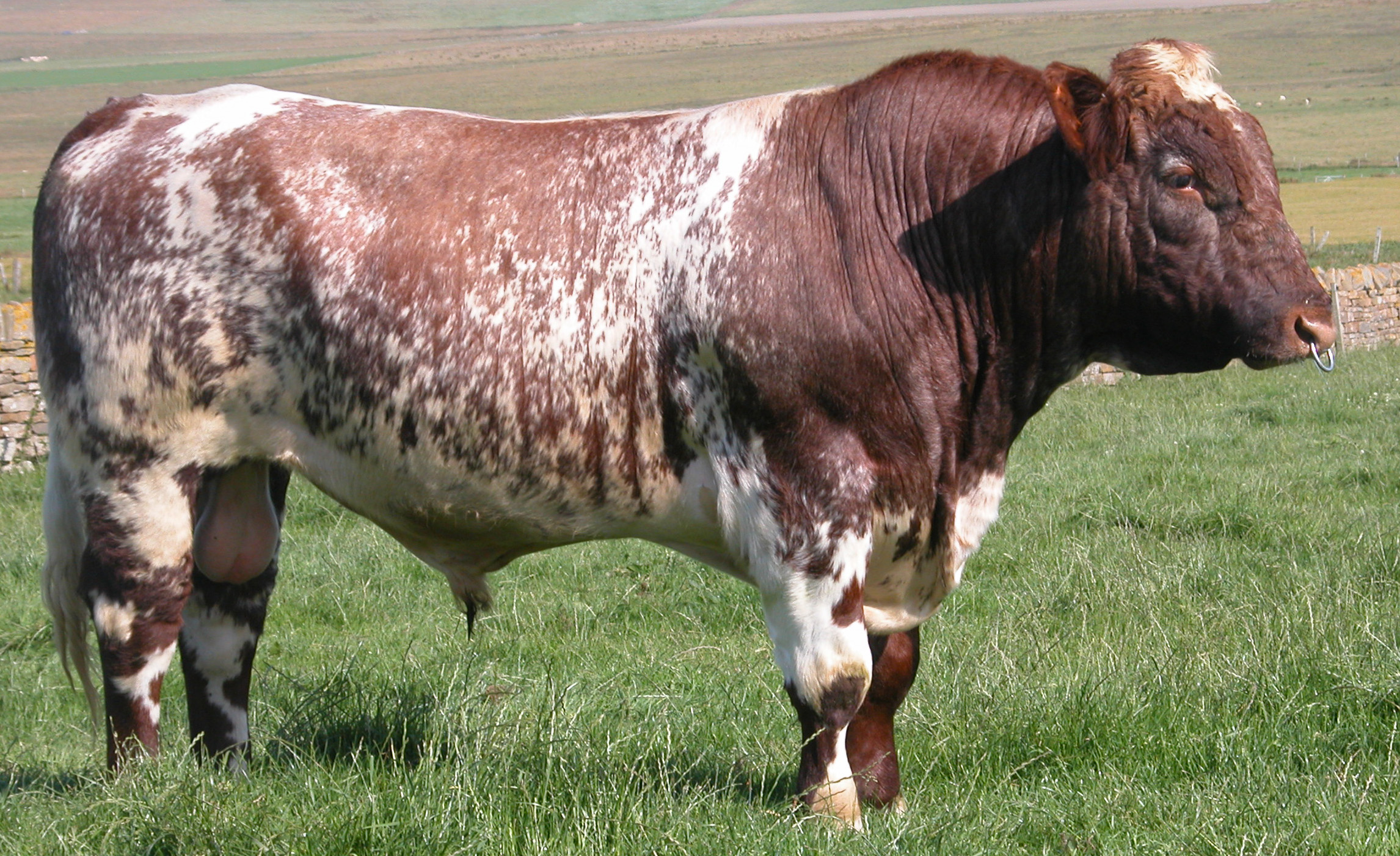 Beef Shorthorn bull in field